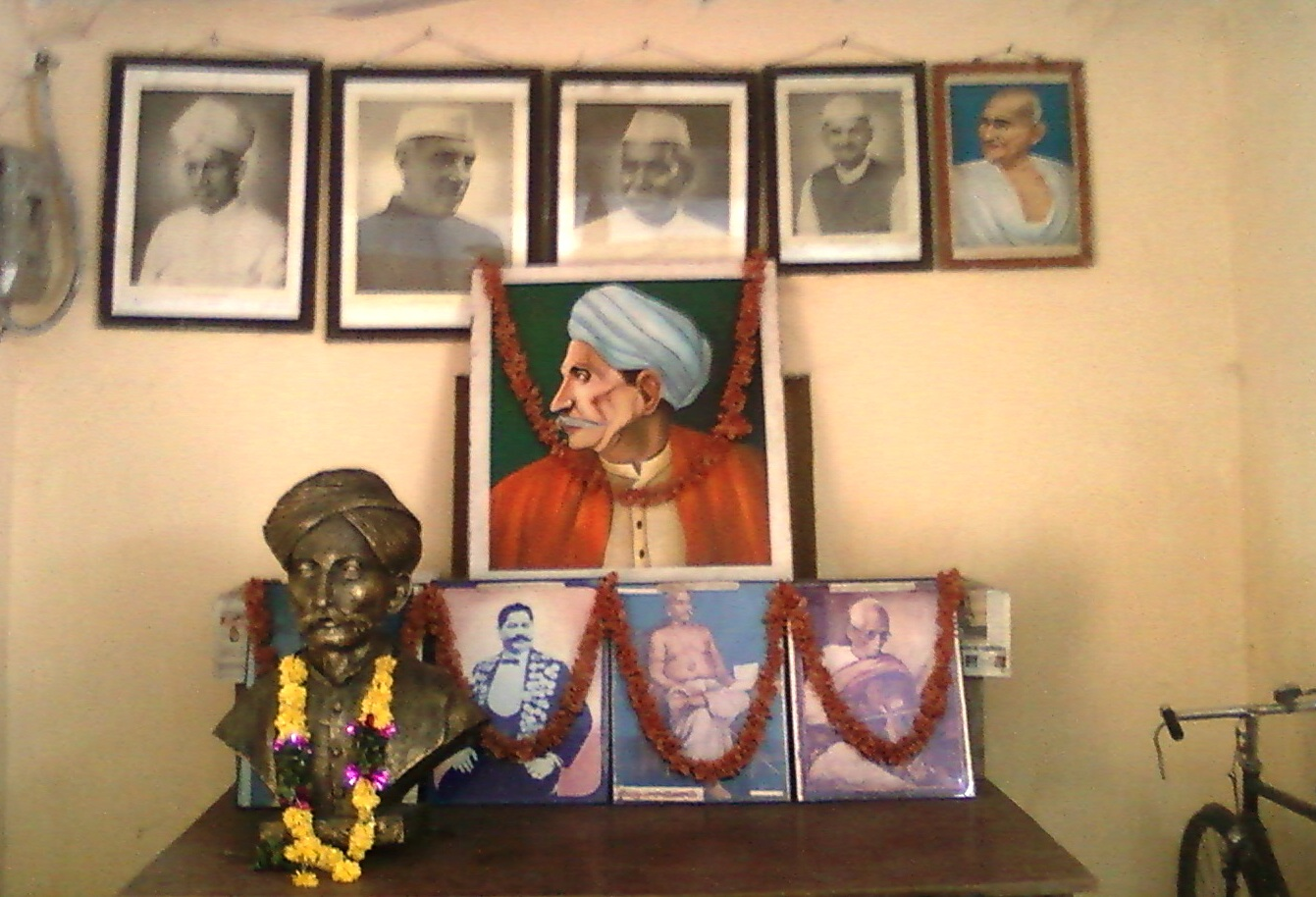 Portrait of Sri Gurazada Apparao garu at his house (presently used as a memorial library) in Vizianagaram, Andhra Pradesh